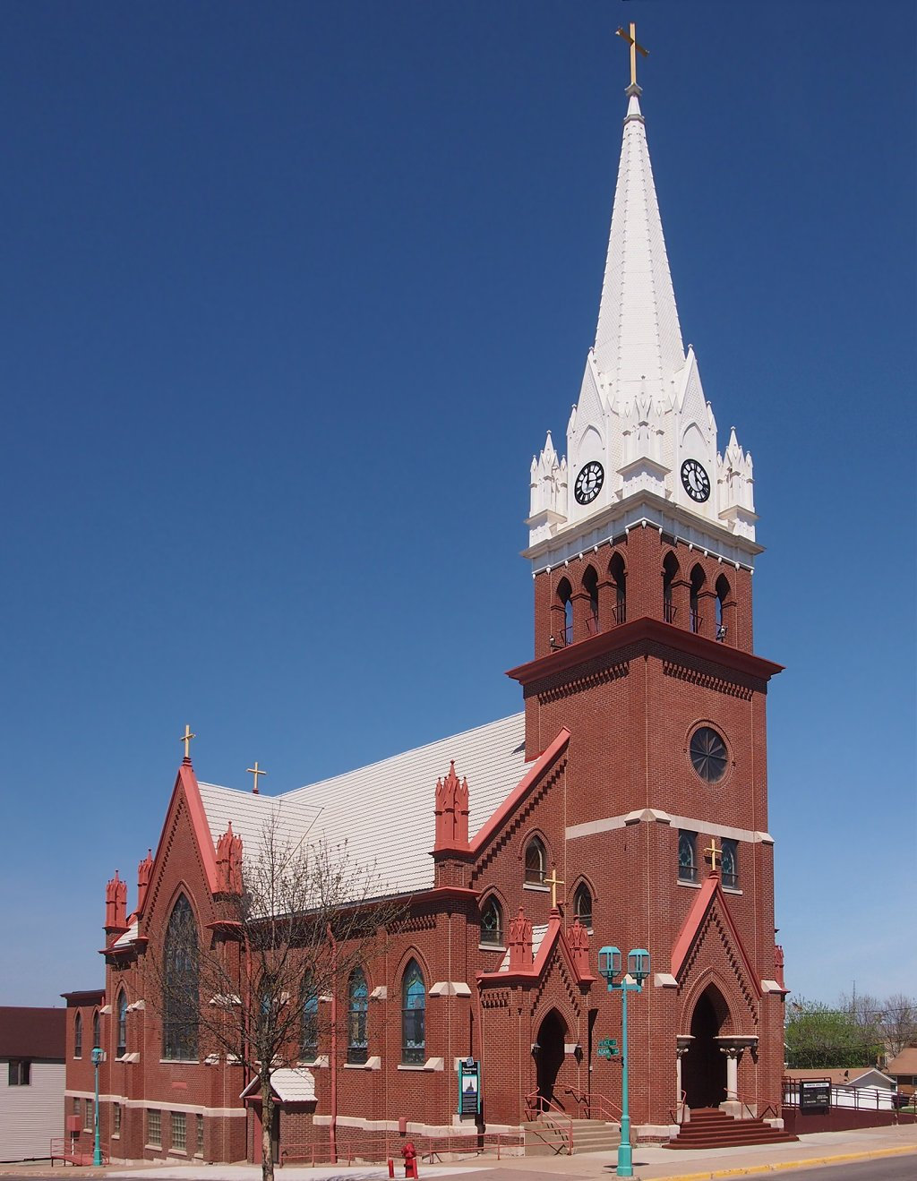 Church of the Holy Family, 307 Adams Avenue, Eveleth, Minnesota, USA. Viewed from the southeast.